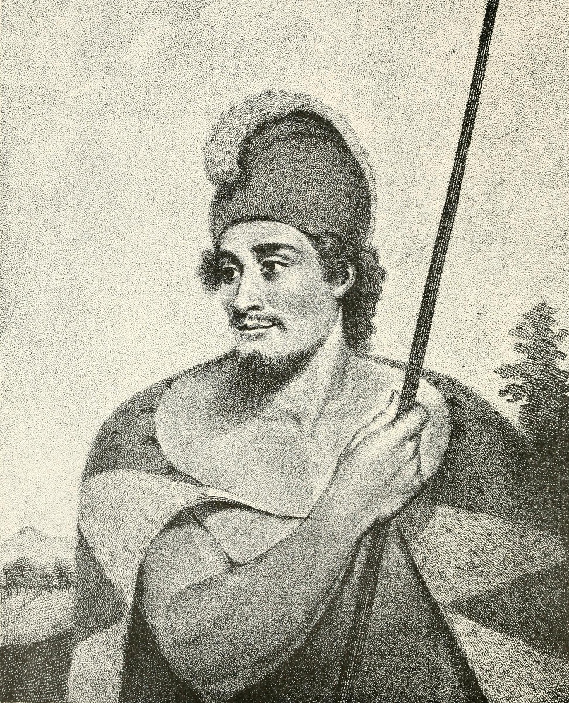 Tianna, a Prince of Atooi or Ka'iana, lithograph after painting by Spoilum, 1787. in John Meares. Voyages Made in the Tears 1788 and 1789.